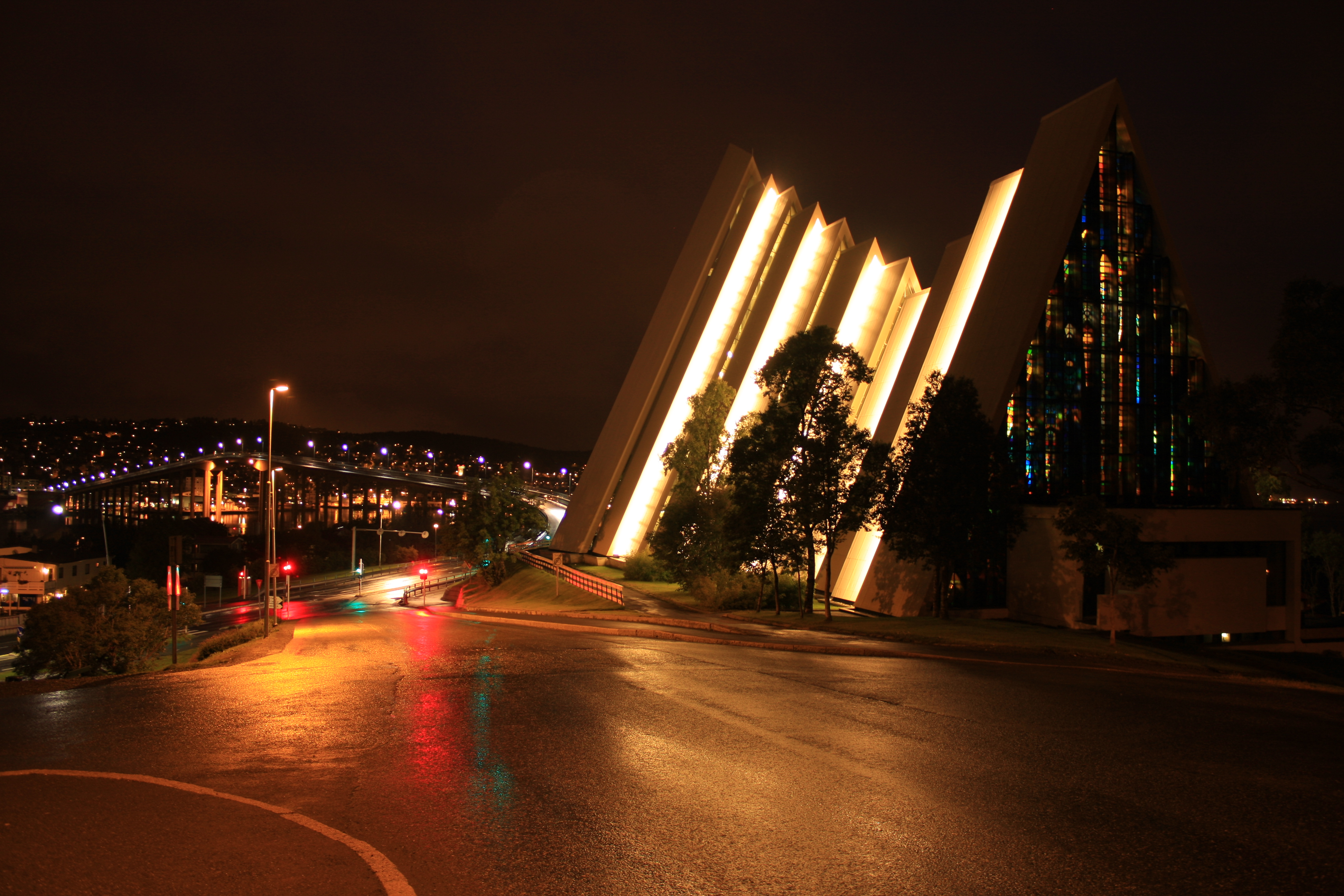 Ishavskatedralen (Arctic Cathedral) in Tromsø, Norway a wet summer night.